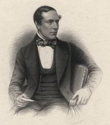 John Nicholson by J.W. Knight, after daguerrotype (NPG). Stipple engraving, , 10 1/4 in. x 6 3/4 in. (260 mm x 173 mm) paper size.